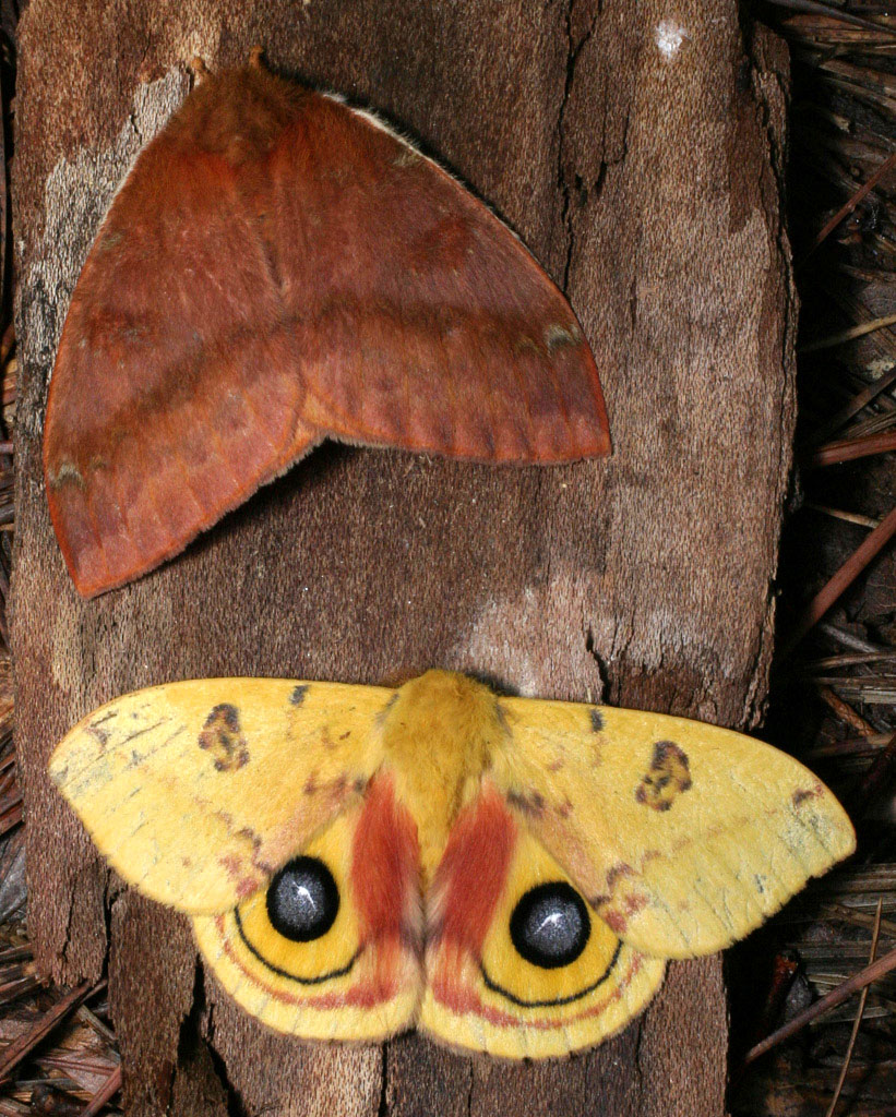 Io moths, Automeris io, female (upper), male (lower). Captured and posed. Location: Durham County, North Carolina, United States